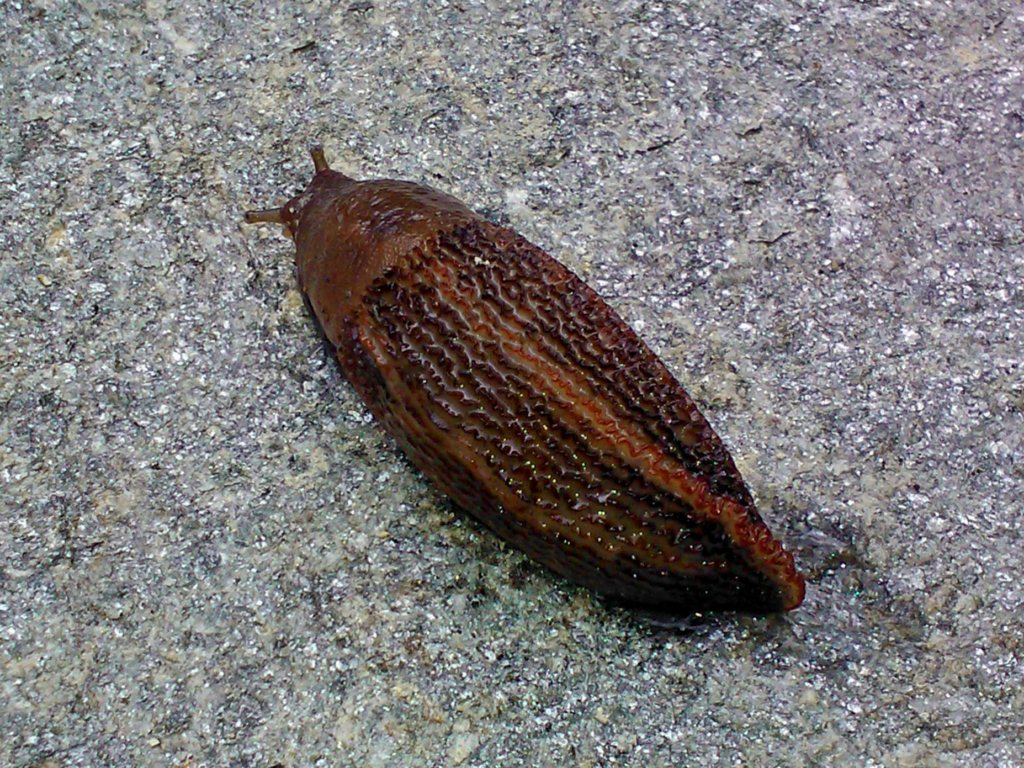 Limax dacampi in Vi Superiore, Genova, Italy